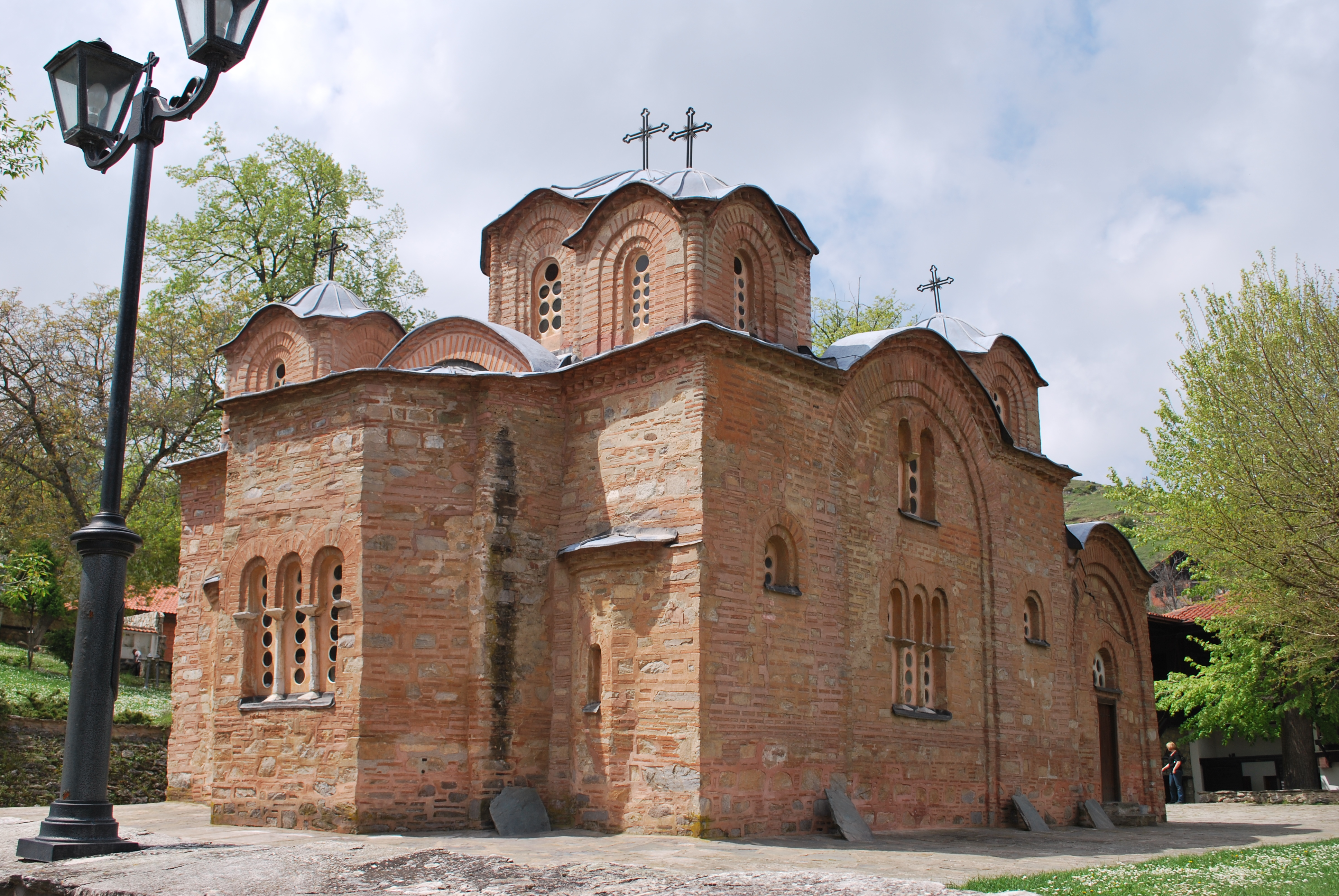 S Pantaleon Church in Gorno Nerezi Monastery, Macedonia